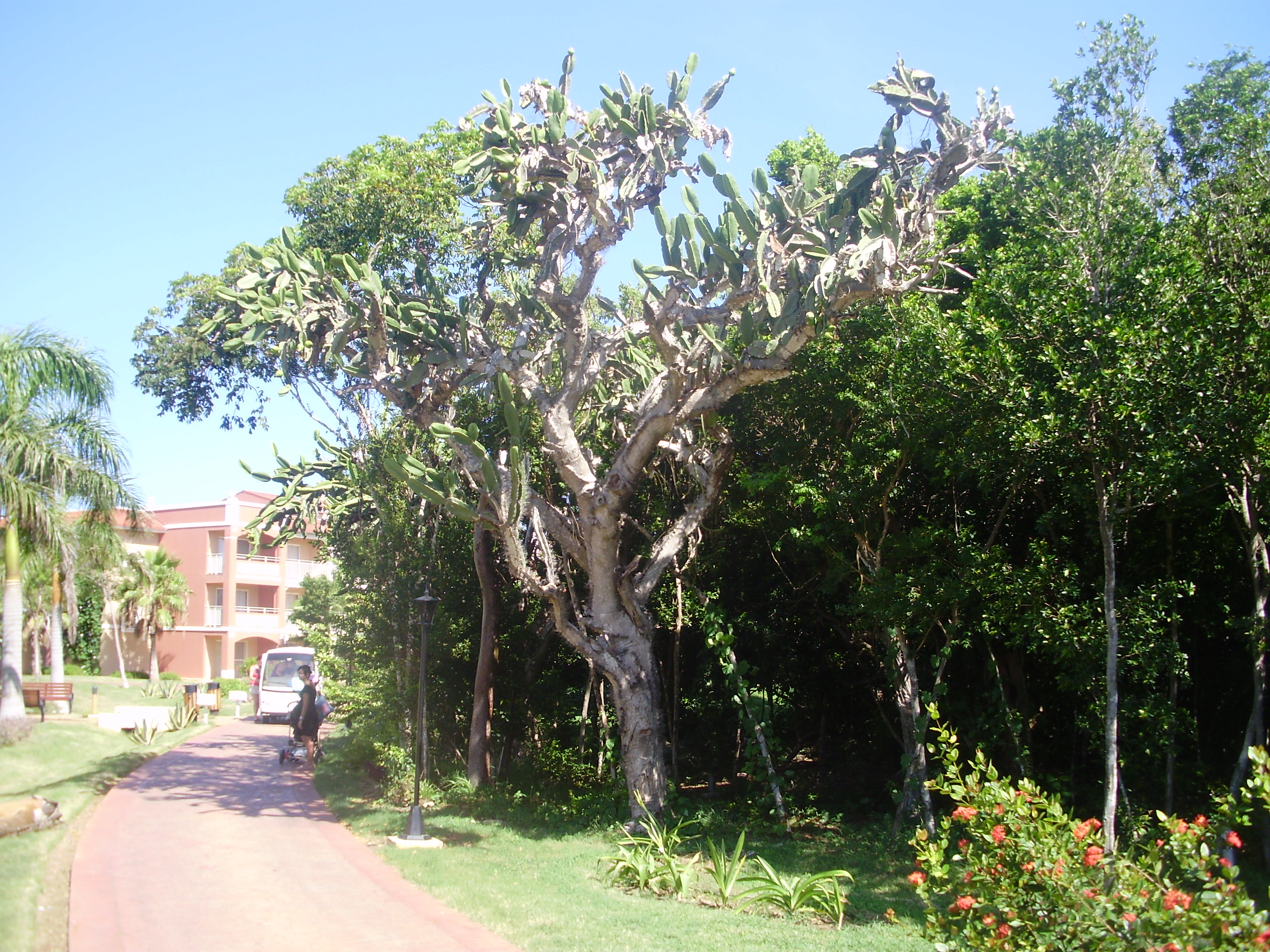 Cactaceae, varadero Cuba